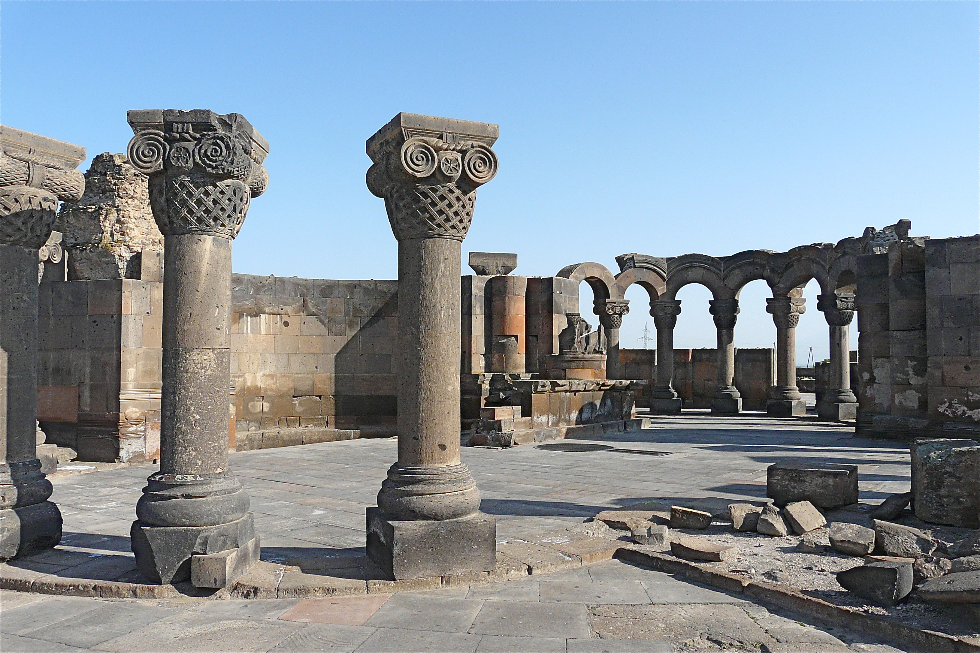 Zvartnots, Armenia.